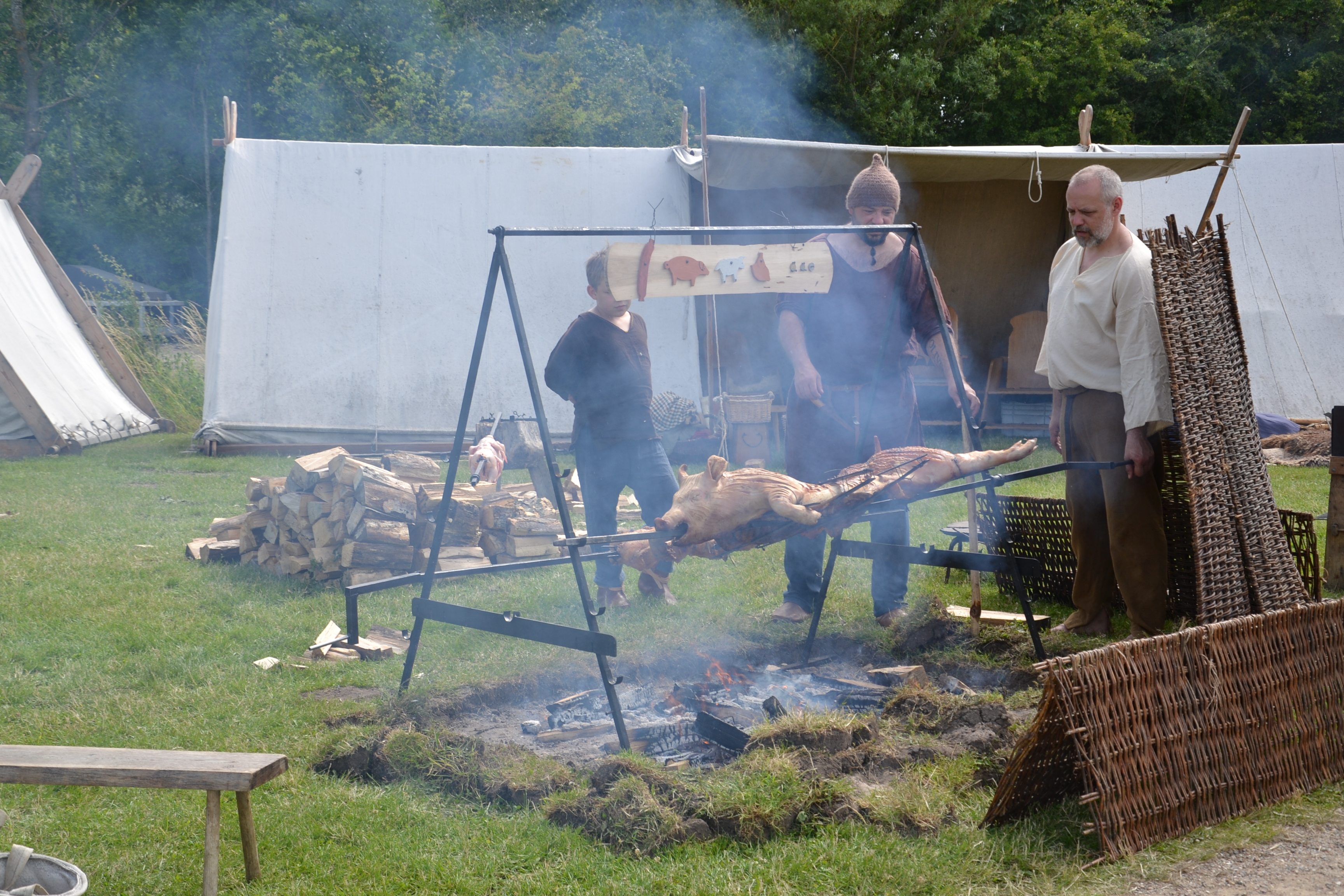 Viking festival in Trelleborg, Denmark